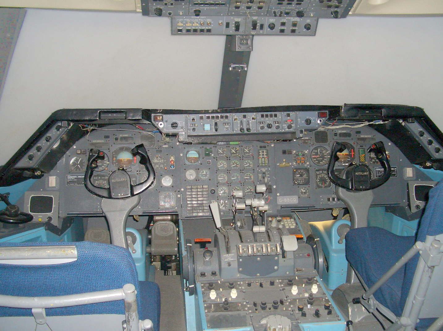 Cockpit of the BA's Lockheed Tristar simulator, at RAF Museum in London.